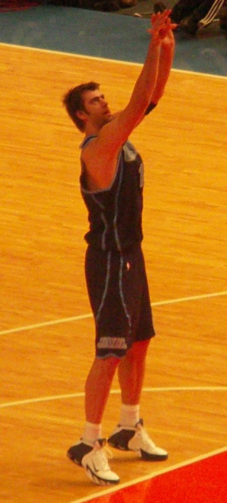 photo taken by flickr user Lordcolus source: [1]